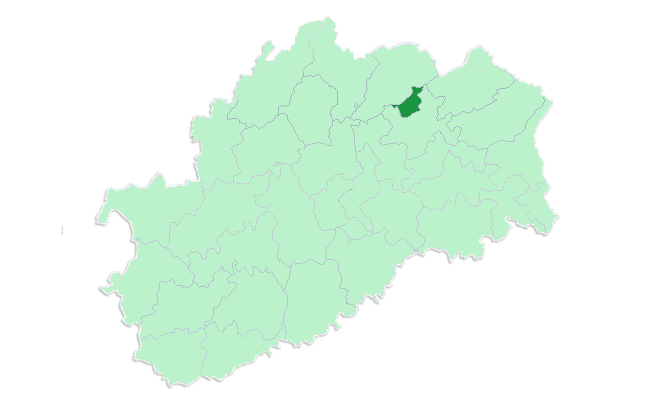 Canton of Luxeuil-les-Bains